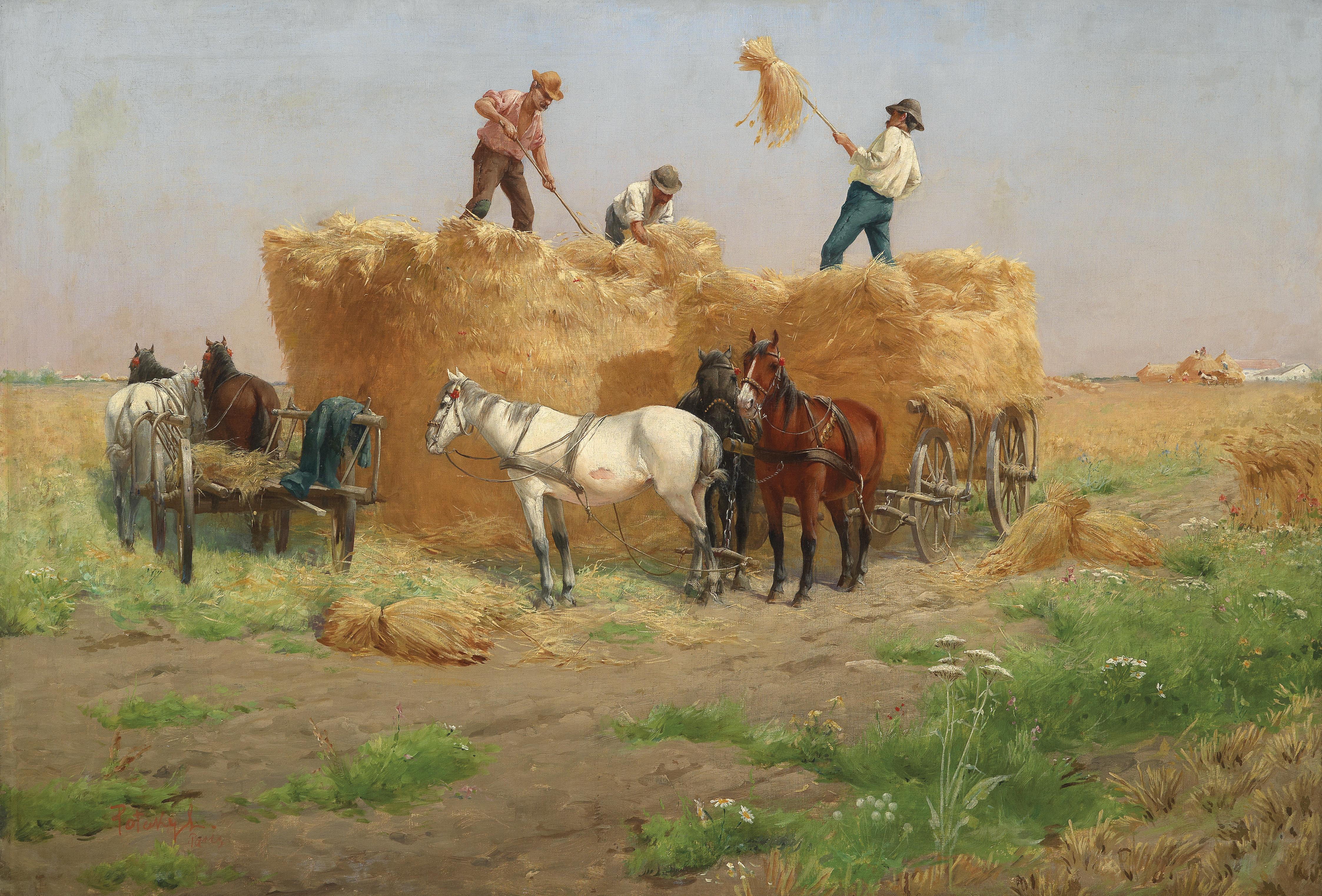 [More likely Wheat harvesting than Hay making], signed Pataky L, Paris, oil on canevas, 82,5 x 120 cm